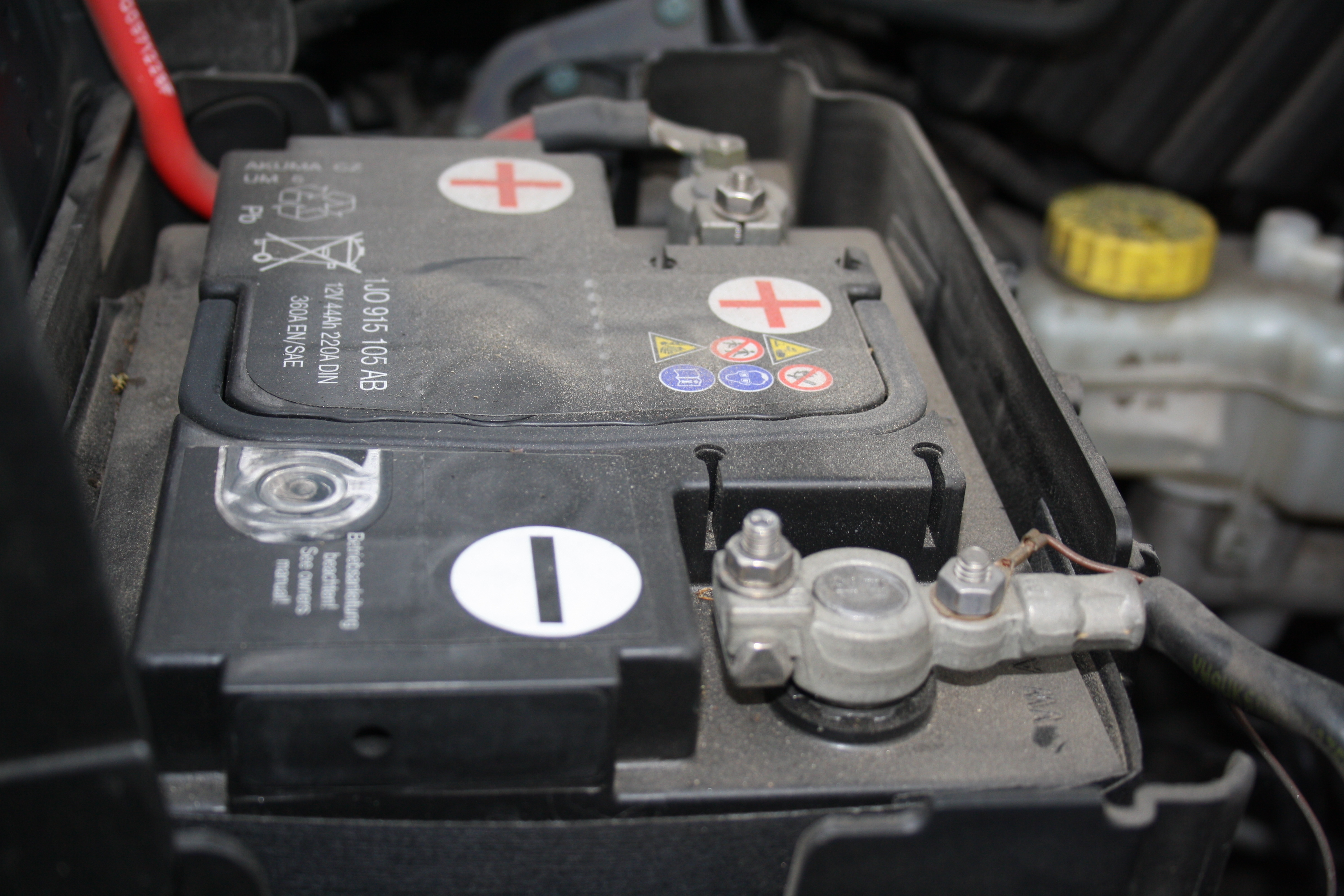 Detail of automobile battery in 1.2 HTP in Škoda Fabia I